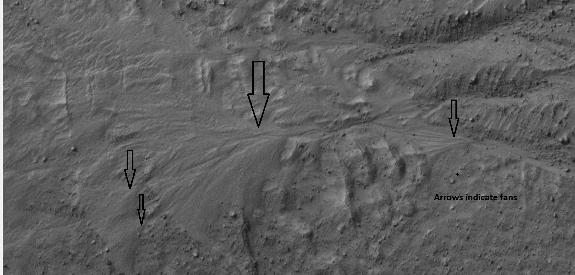 Multiple alluvial fans, as seen by hirise, under HiWish program. Location is 40.7 S and 310.3 E.